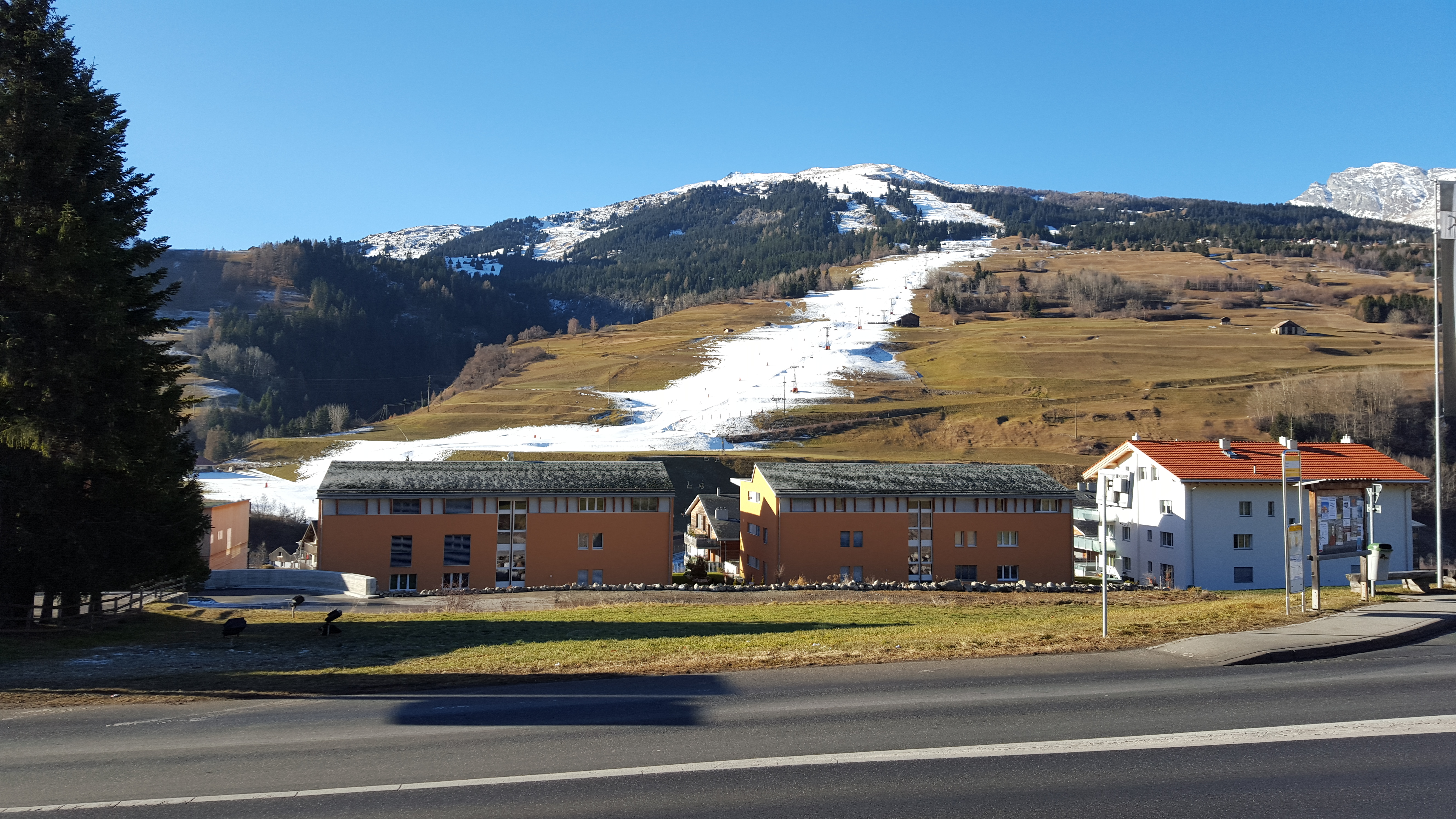 Strip of artificial snow in Savognin (Surses, Grison, Switzerland)